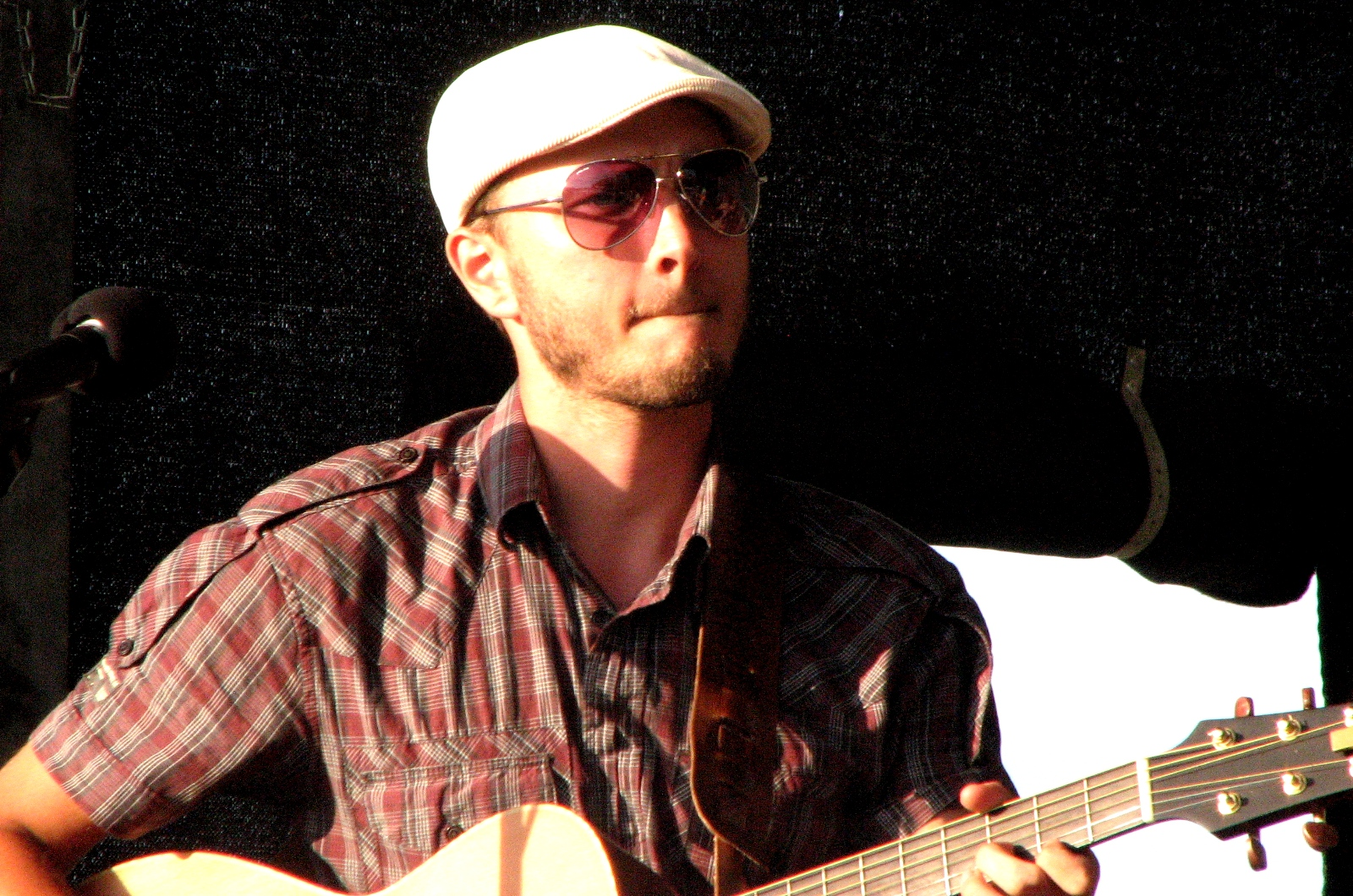 Erko Niit performing in Tallinn's Maritime Days